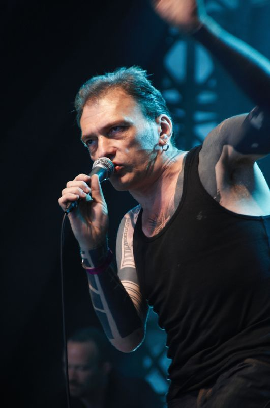 Daniel Darc at the Eurockéennes 2008